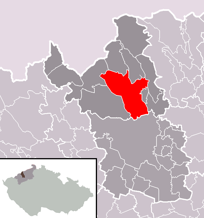 Location of Litvínov town within Most District and administrative area of Litvínov as a Municipality with Extended Competence.